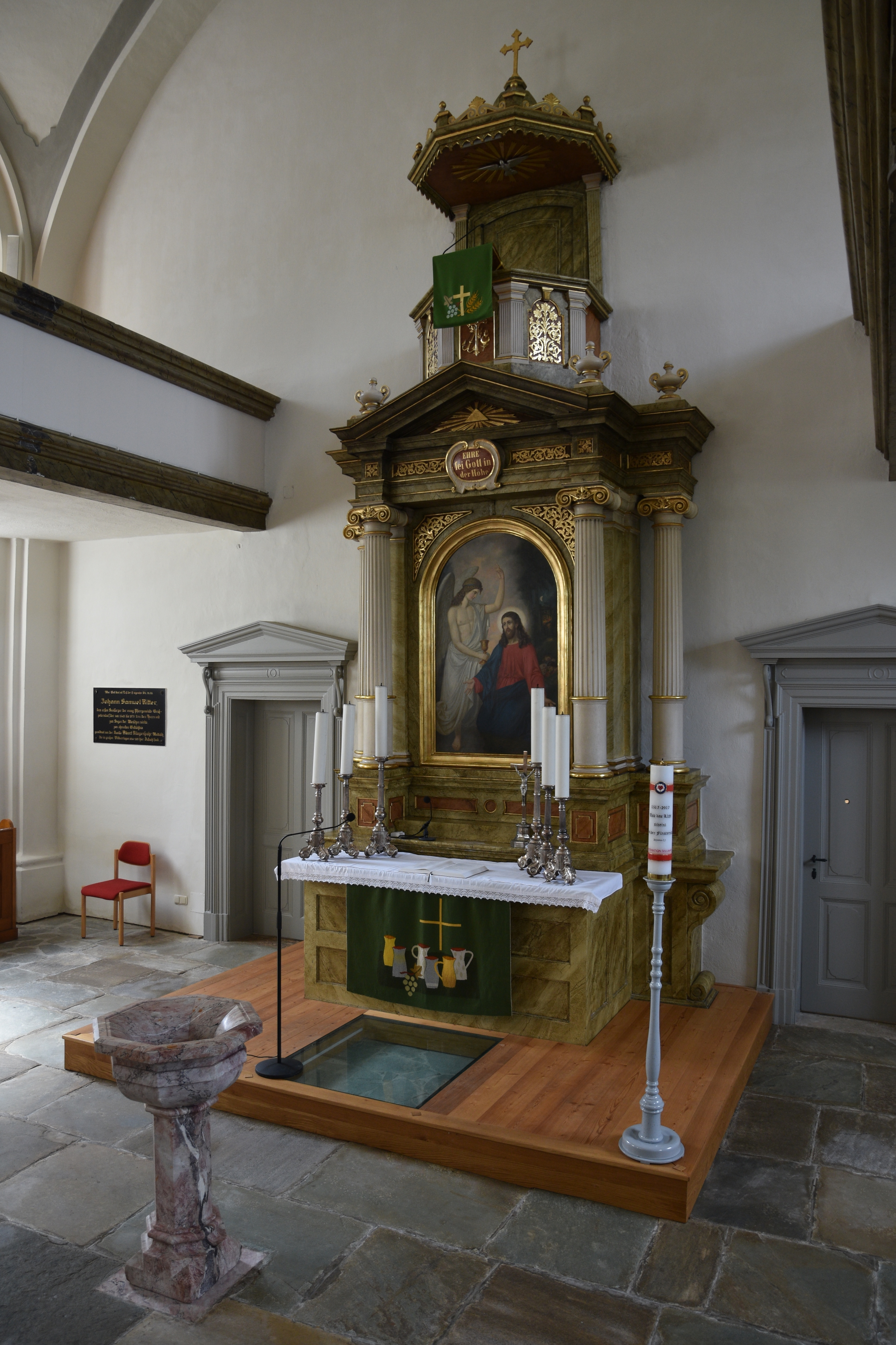 Church Evangelische Pfarrkirche Großpetersdorf Interior